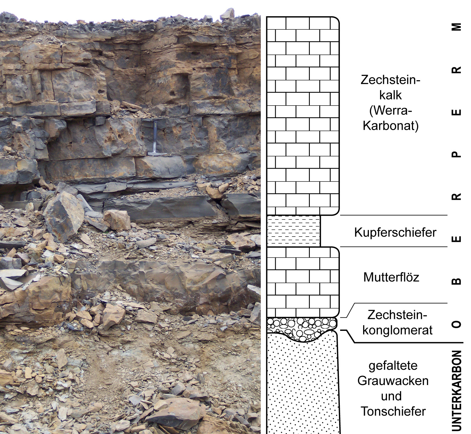 Zechstein unconformity and basal Zechstein beds (basal Werra-Formation, lower Upper Permian) including copper shale (brownish weathered), exposed on the upper level of the open cast mine Kamsdorf, near Saalfeld, Thuringia, Germany.